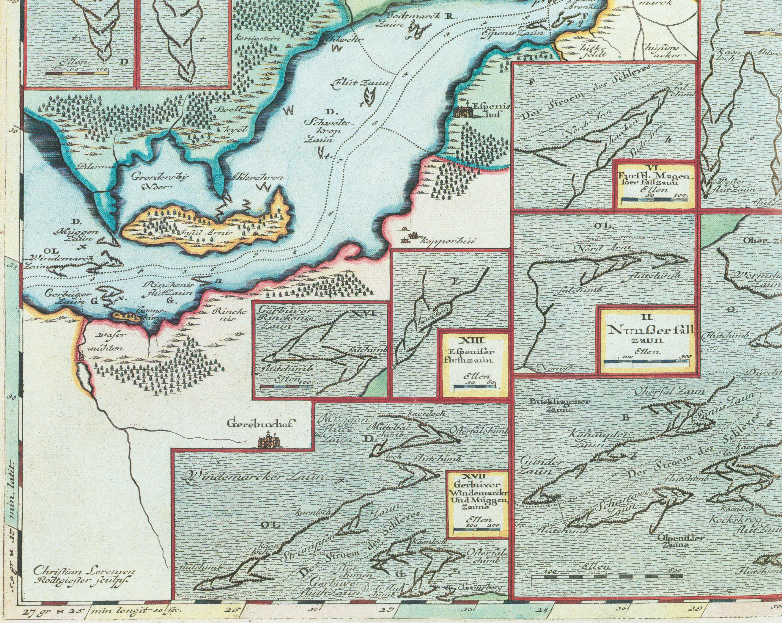 Exact description of the "river" Schlei, engraved by Christian Lorensen Rodtgiesser (21 side maps show the herring fences in detail) from the map below left: Detail. On behalf of Duke Friedrich III of Schleswig-Holstein-Gottorf, Mejer had carried out a detailed survey and mapping of all herring fences in the Schleijunkern in more than 40 maps (the so-called' Schlei Atlas'). The reason for this was the dispute between the' Schleijunkern' (aristocratic goods on the Schlei) and the Holmer (Schleswiger) fishermen about fishing rights on the Schlei. This detail shows the detail around the island of Arnis and comes from the map showing the easternmost part of the Schlei.